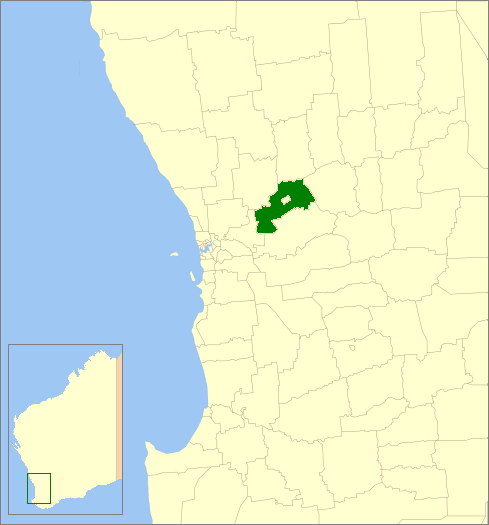 Description=Location of the Local Government Area in Western Australia